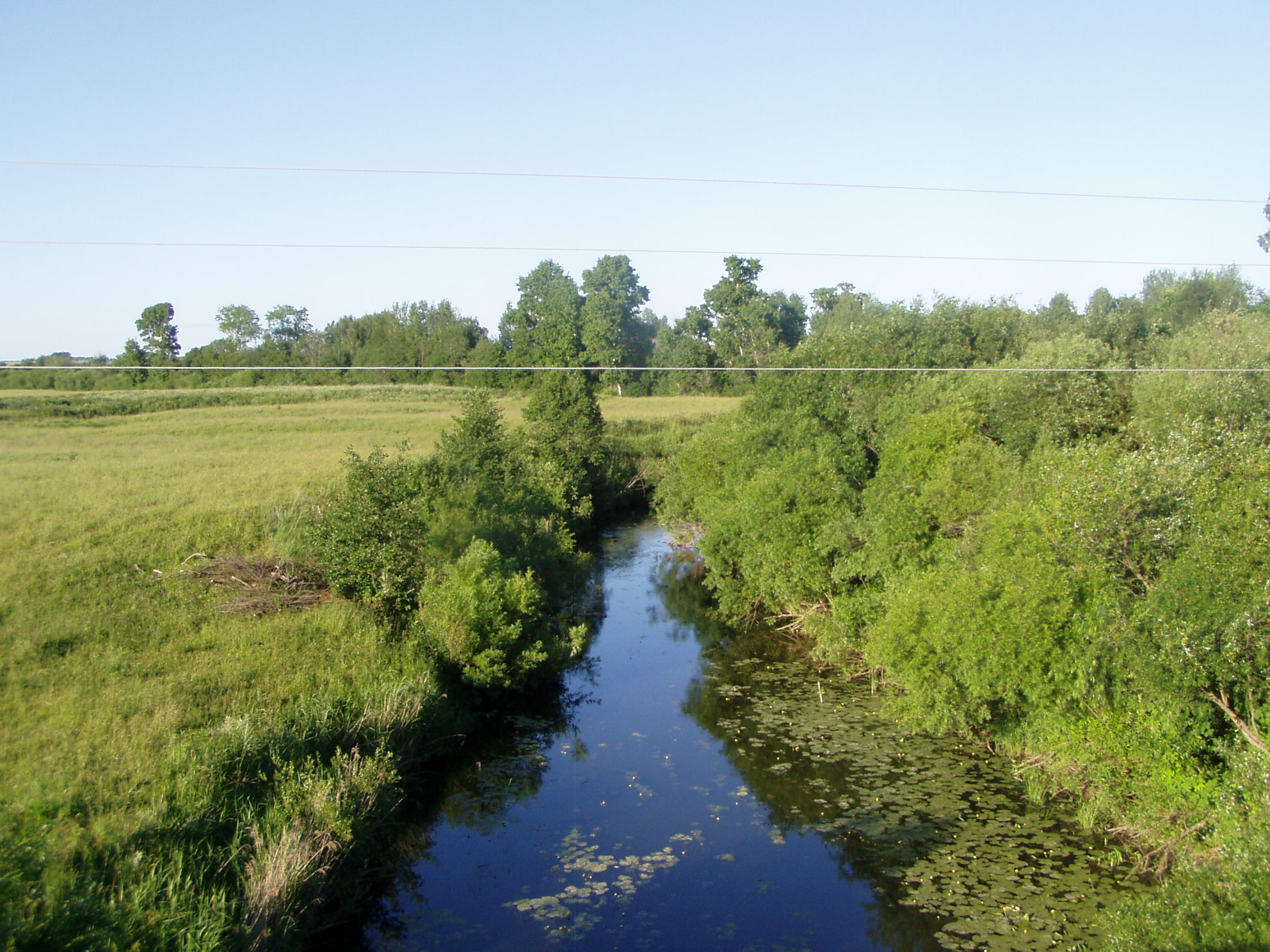 View on the Shuda river, Pizhanka rayon, Kirov oblast, Russia